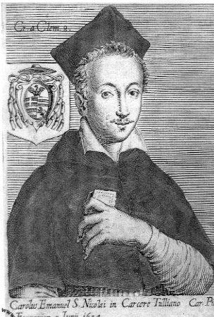 Carlo Emmanuele Pio di Savoia